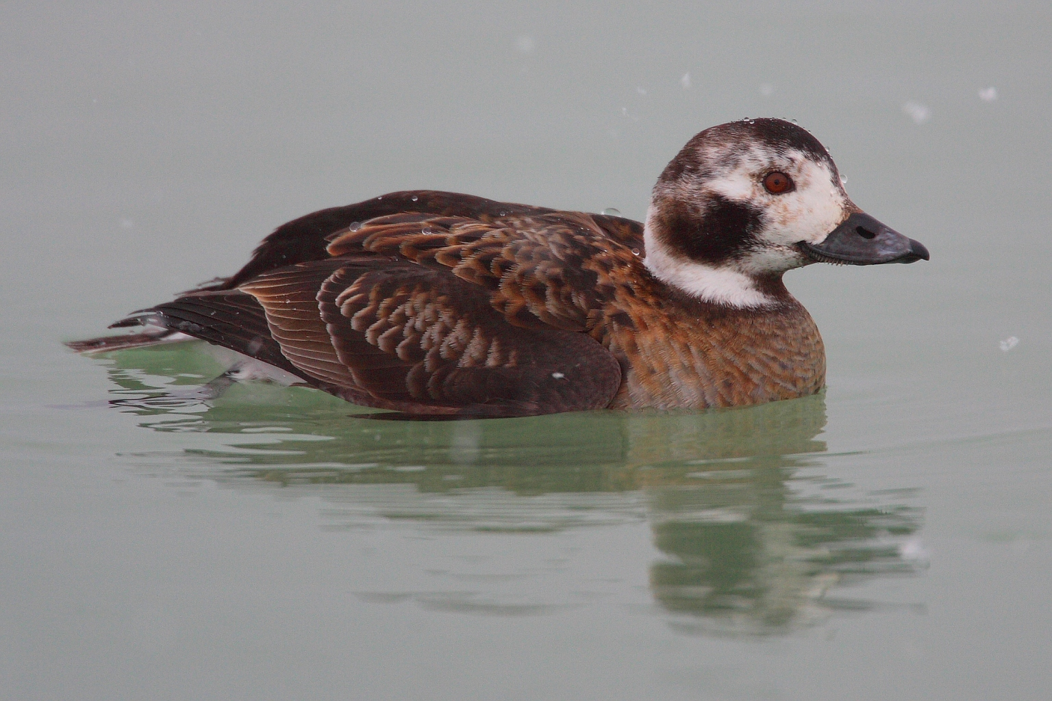 Long-tailed Duck -- Cobourg, Ontario, Canada -- 2007 February